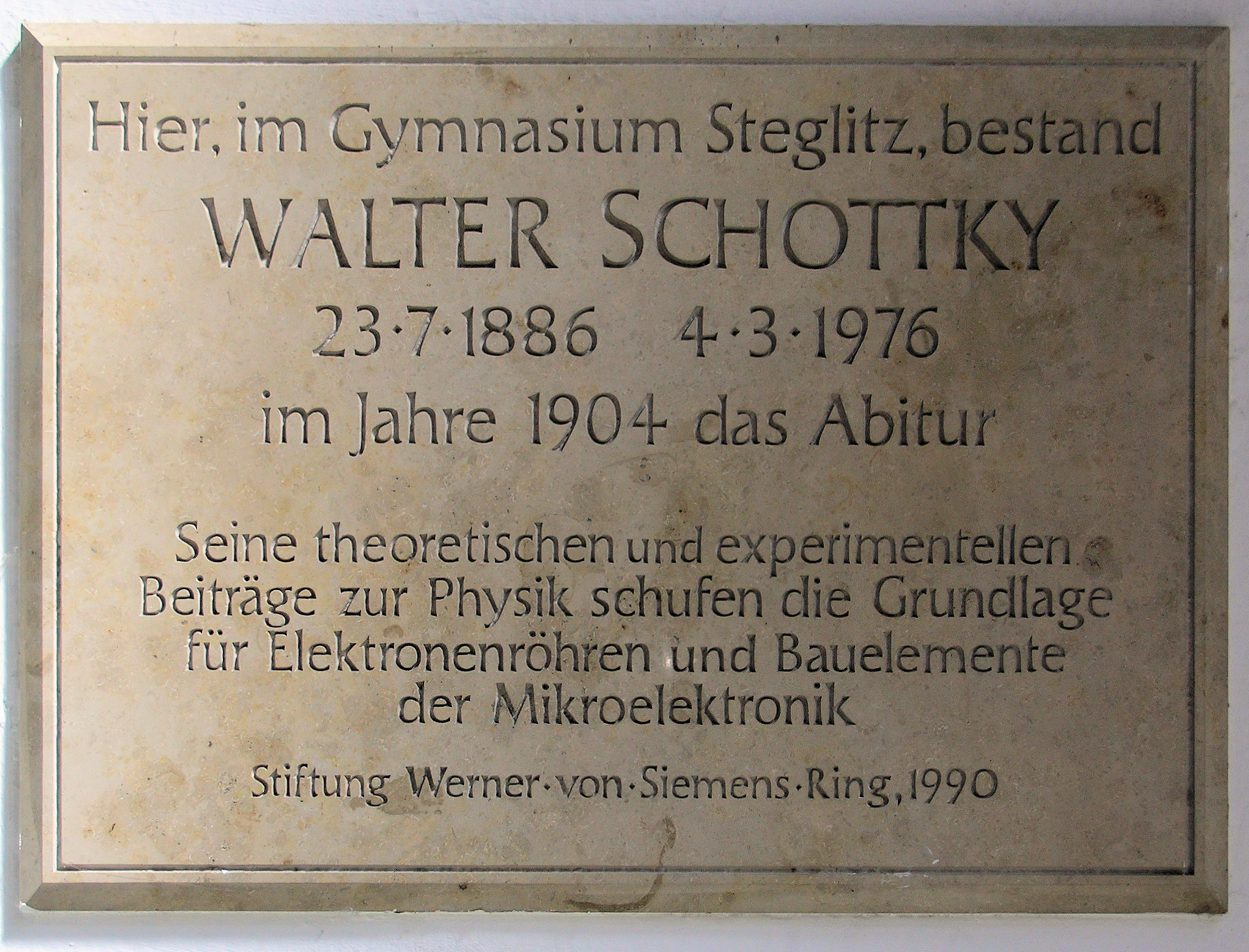 Memorial plaque, Walter Schottky, Heesestraße 15, Berlin-Steglitz, Germany Koordinate:52°27′25″N 13°19′36″E / 52.45694°N 13.32667°E